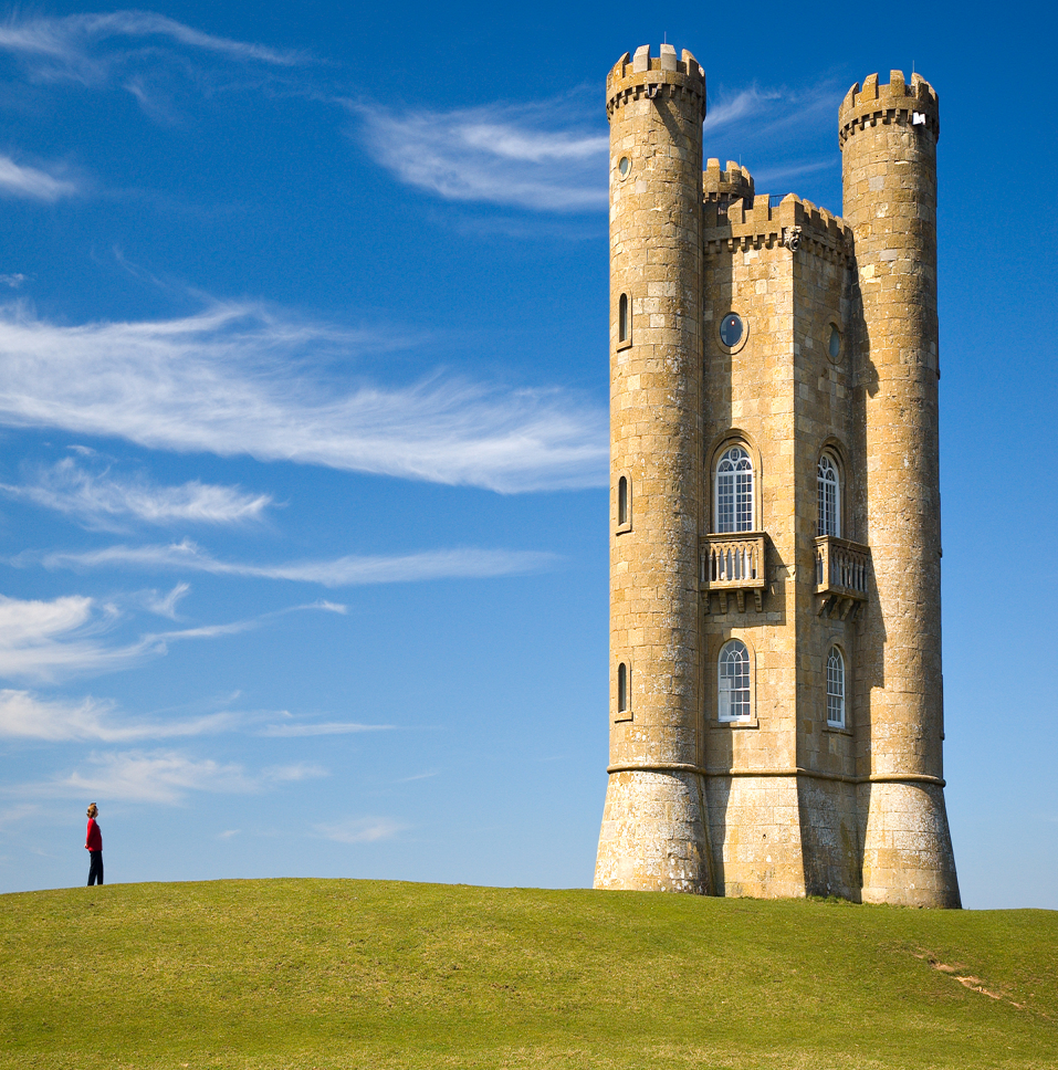 Broadway Tower, Cotswolds, England. Edited version of photo by Newton2, cropped one person from the left.